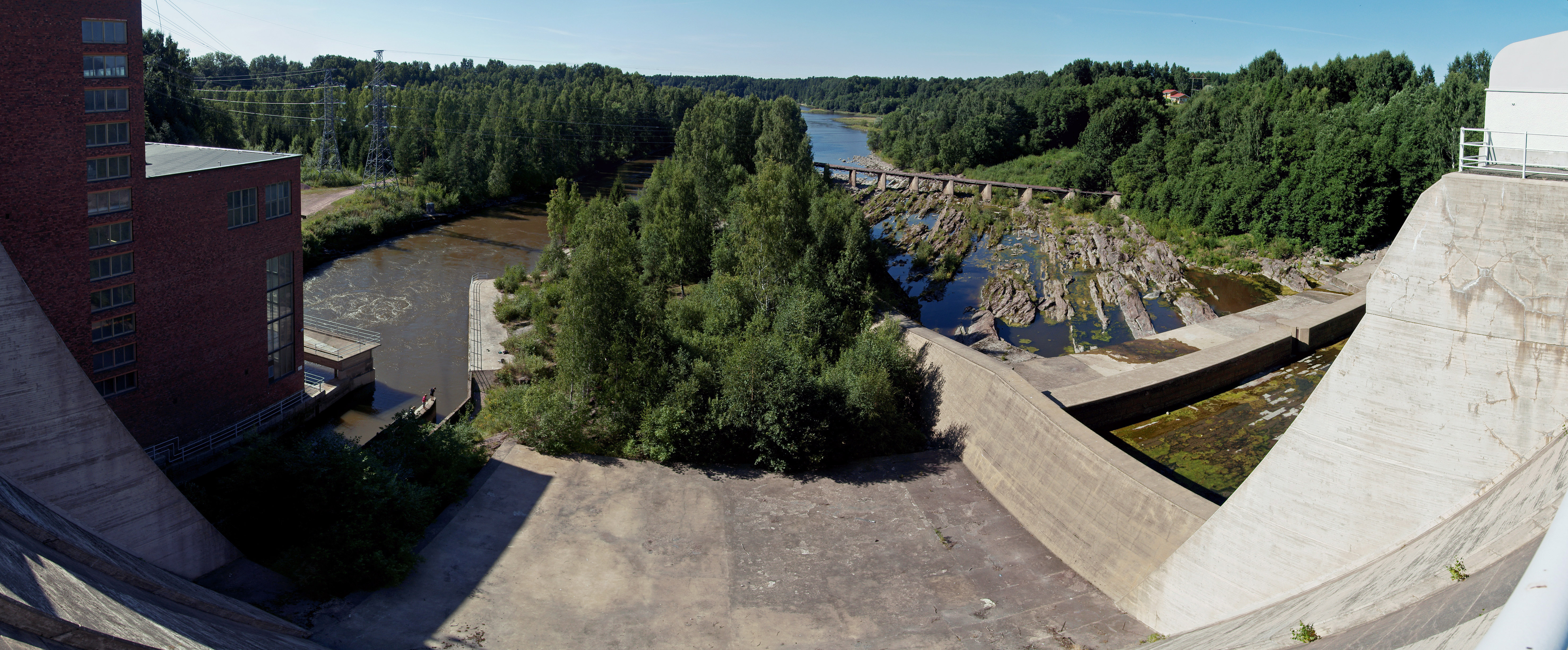 Hydroelectric plant of Harjavalta.